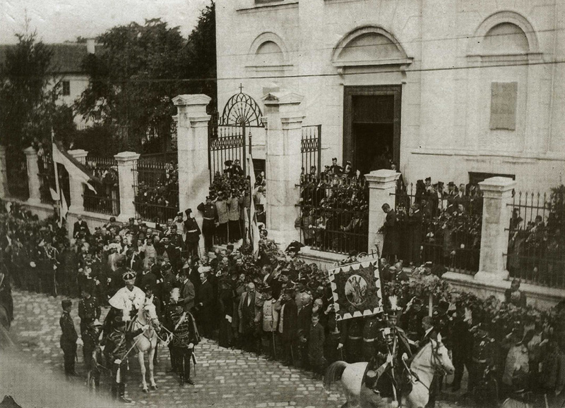 End of coronation of King Peter I of Serbia, and start of the defile through Belgrade, Serbia. In front of the Belgrade Cathedral Church